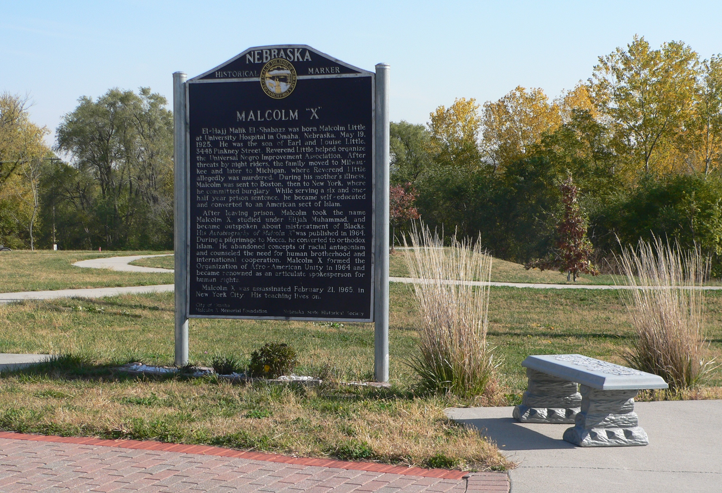 Historical marker at Malcolm X House Site in Omaha, Nebraska, at 3463 Evans Street.